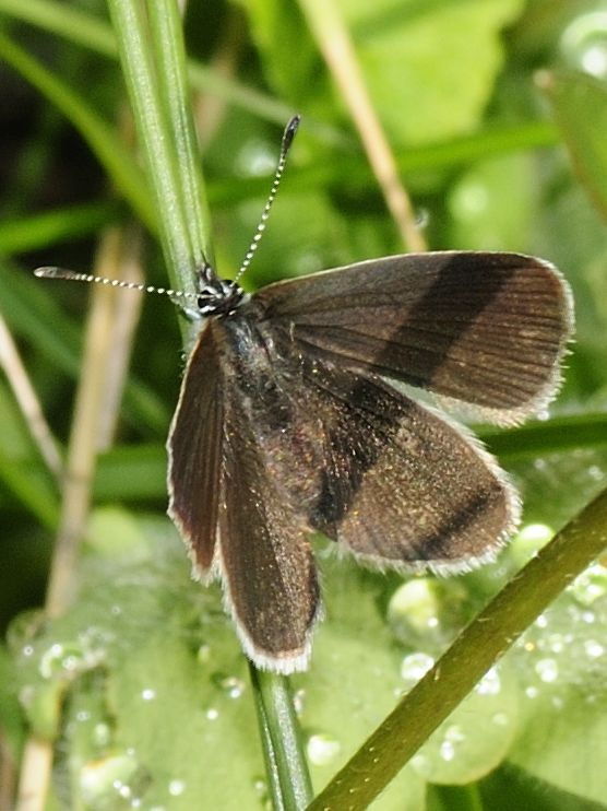 Please report references to .